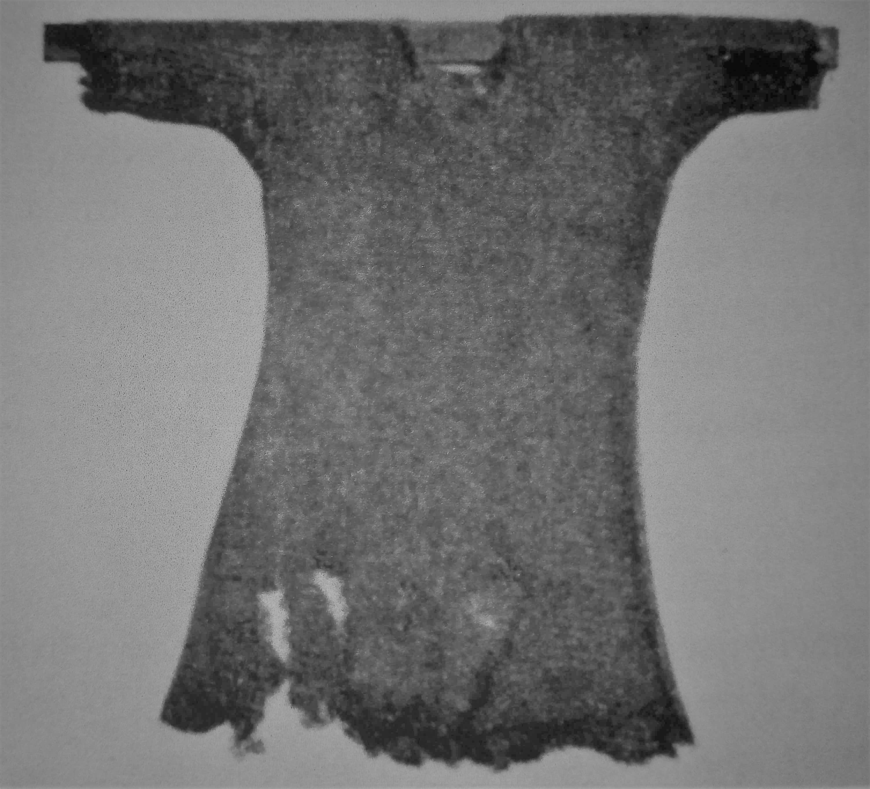 Photograph of baju rantai or baju besi, iron coat of chain mail.